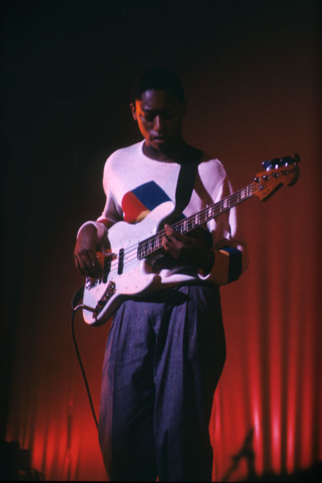 Darryl Jones, performing with the Miles Davis band, Palais des Congrès, Paris, 1983